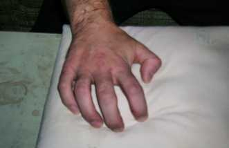 Iron Palm: Claw hand strike hand position, dropped from the horse stance. Clawhand Strike: The Forth Strike Dropped in Sequence